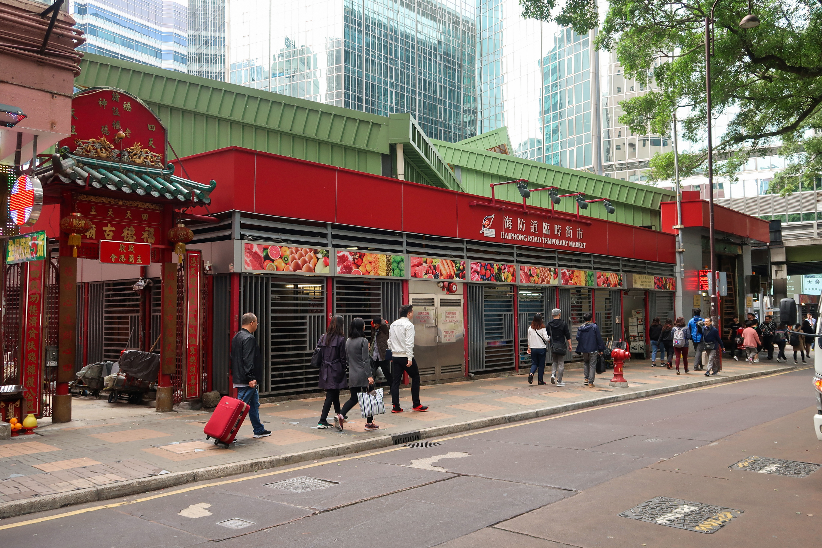 Haiphong Road Temporary Market